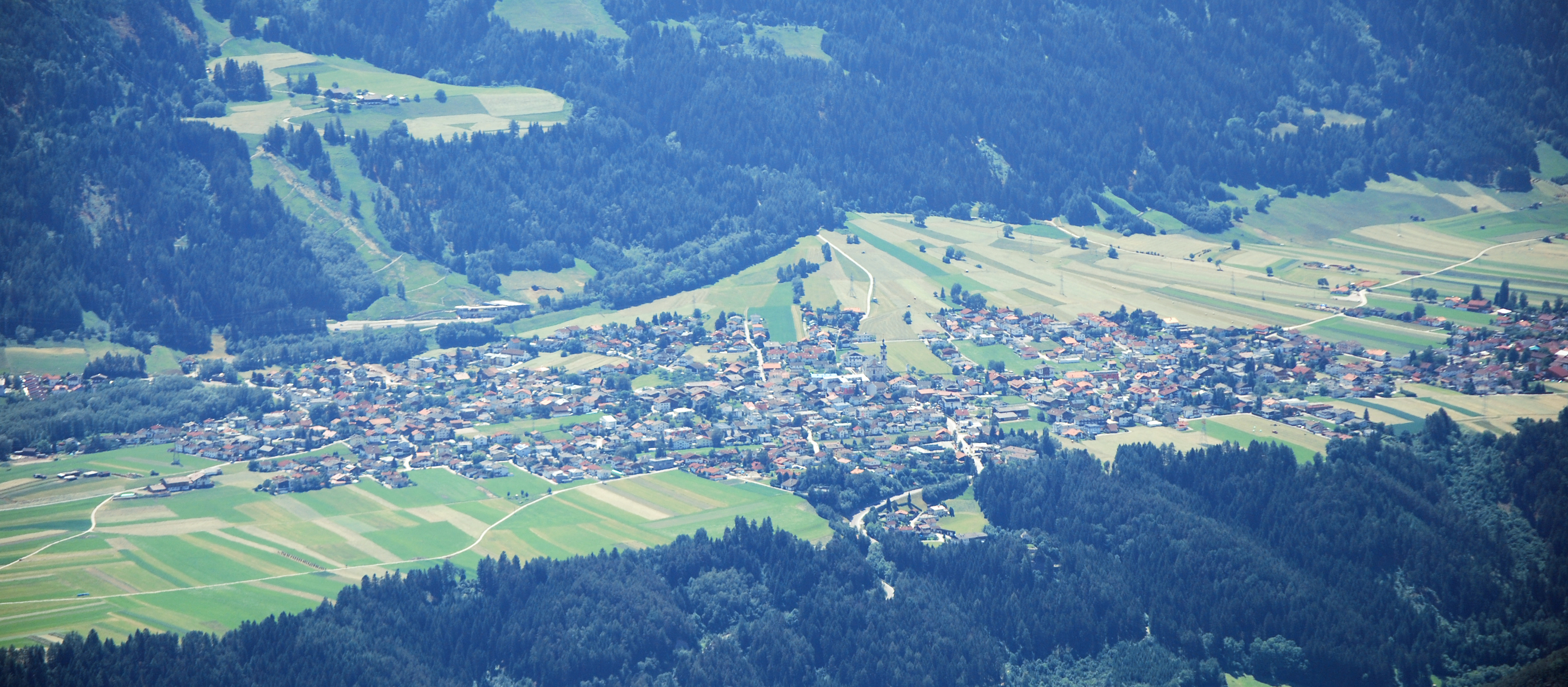 Götzens from NE